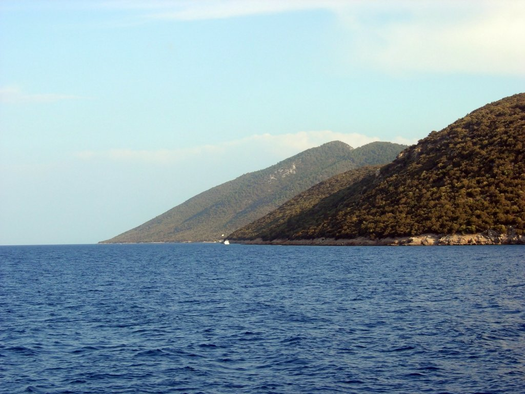 The Island of Kara Ada near Bodrum (Turkey) viewed from west